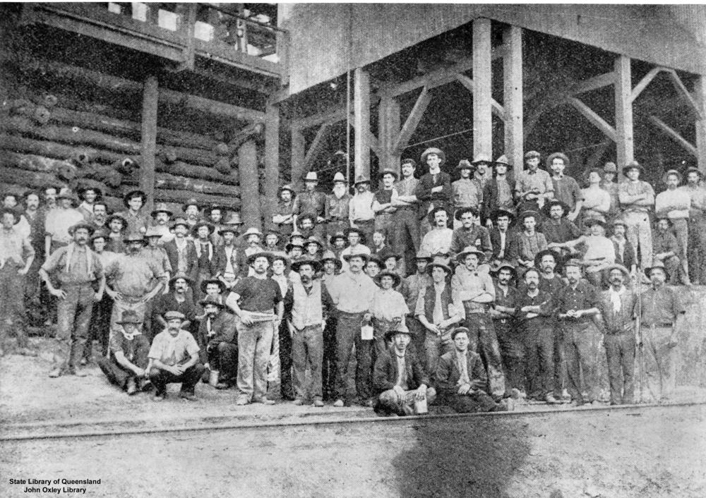 Workers from the Chillagoe Smelting Works, Queensland, ca. 1907. Large group of male workers from the Chillagoe Smelting Works pose for a photograph in 1907.